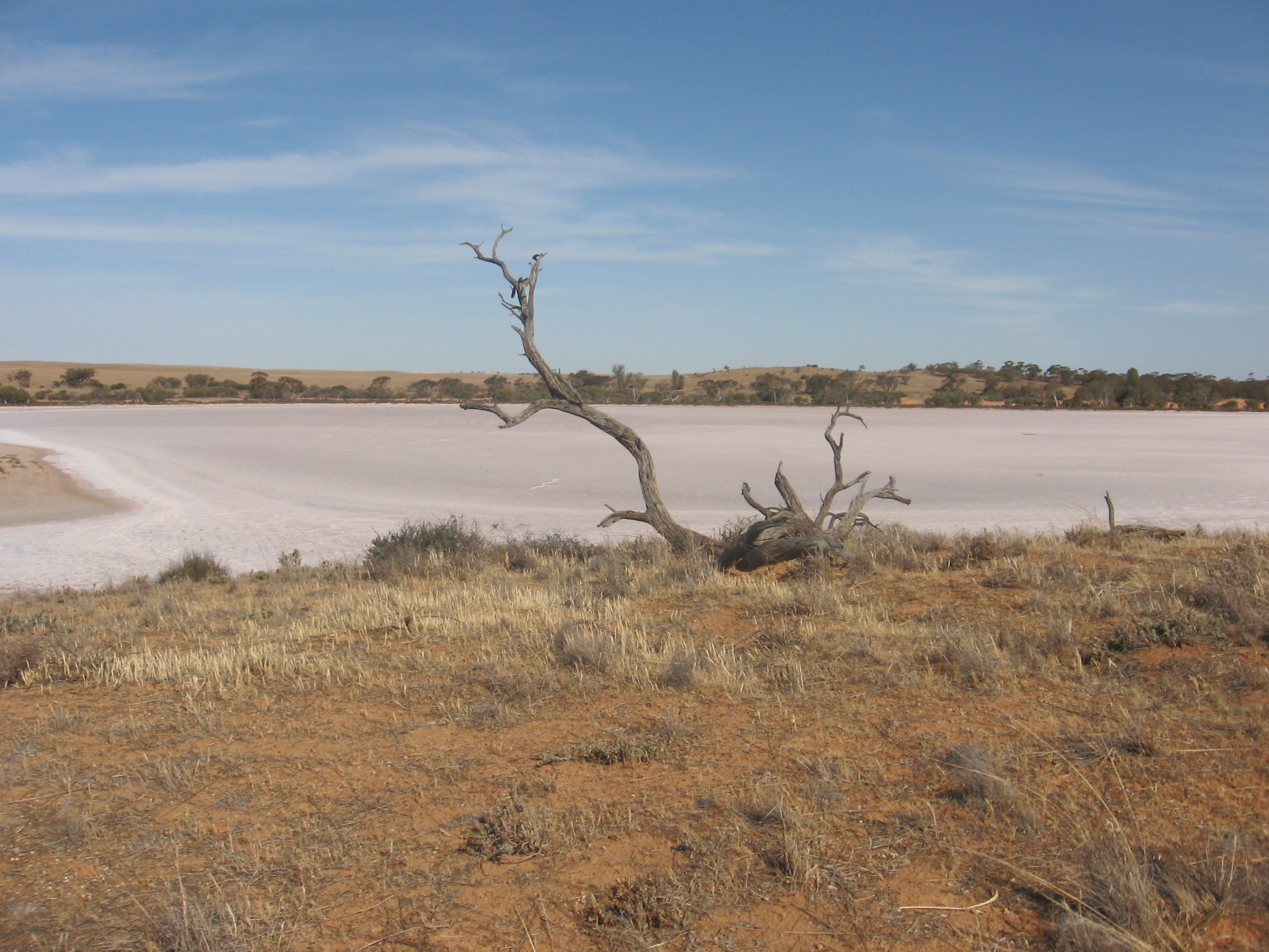 One of the Pink Lakes (salt lake) in the Murray Sunset Nationalpark, Victoria, Australia